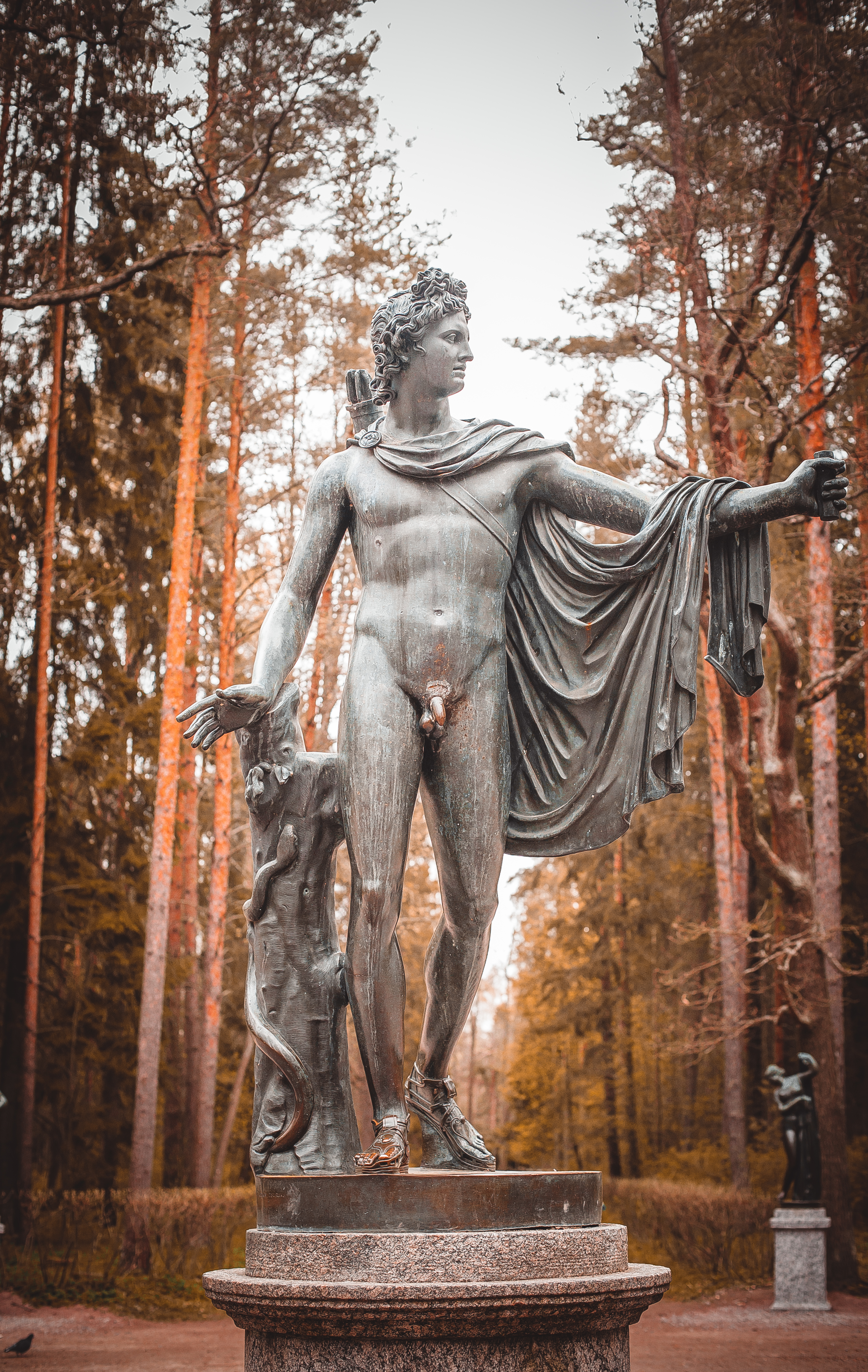 Apollo Belvedere The Pavlovsk Park Twelve Paths at Old Silvia Apollo and the muses